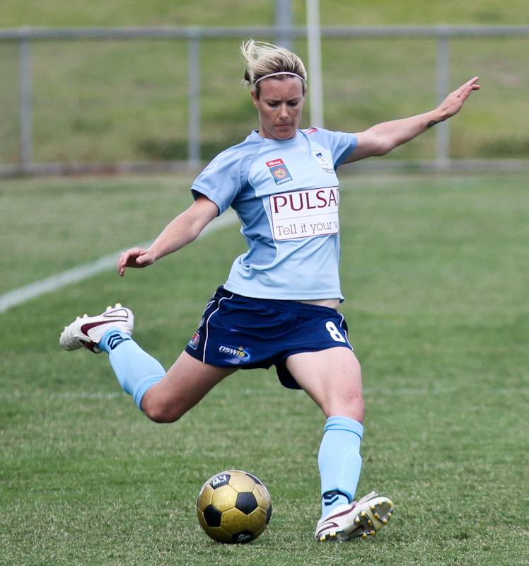 Jo Burgess playing for Sydney FC in the W-League against the Newcastle Jets.